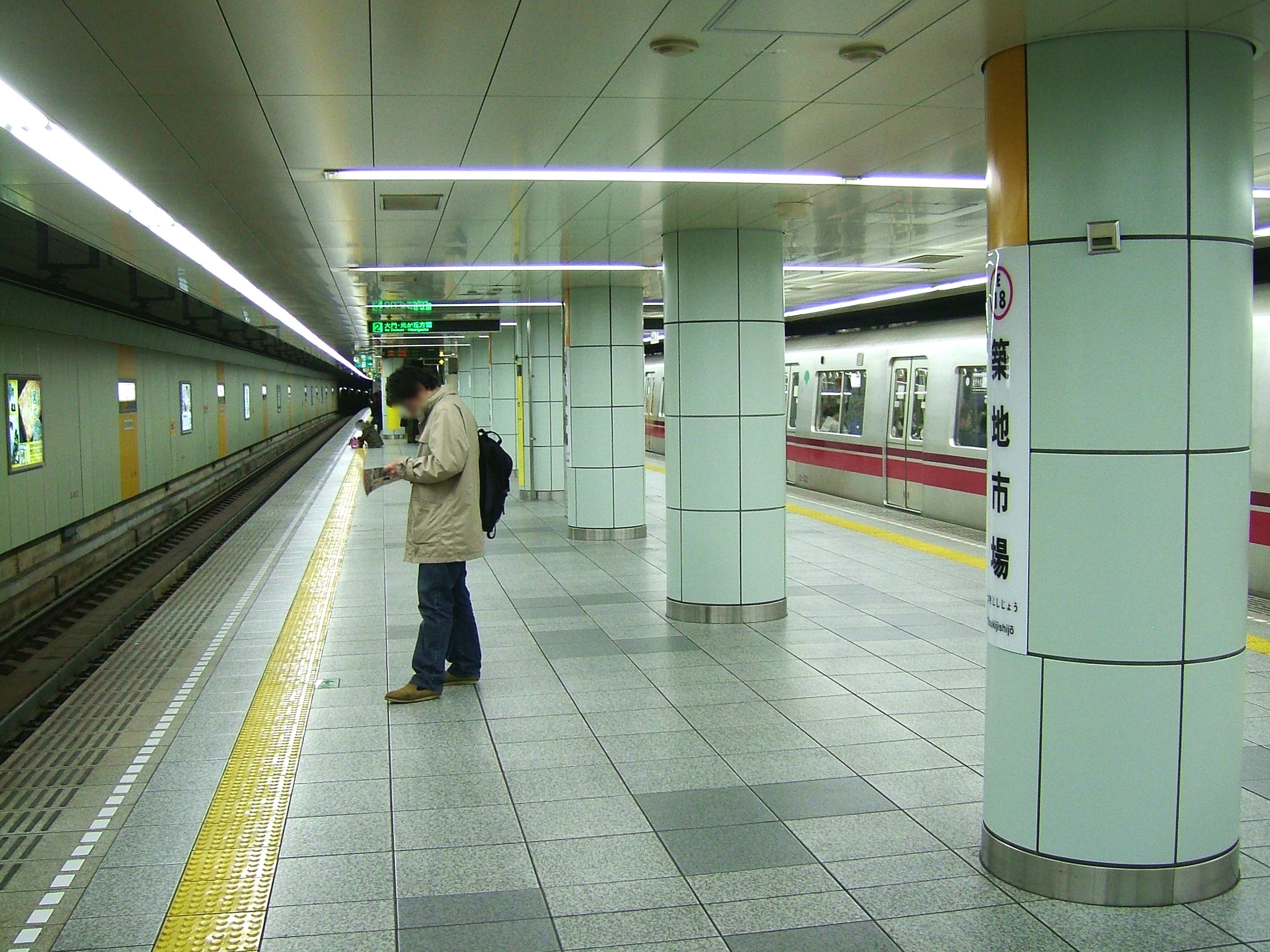 The platform at Tsukijishijō Station on the Toei Ōedo Line in Chūō city, Tokyo, Japan